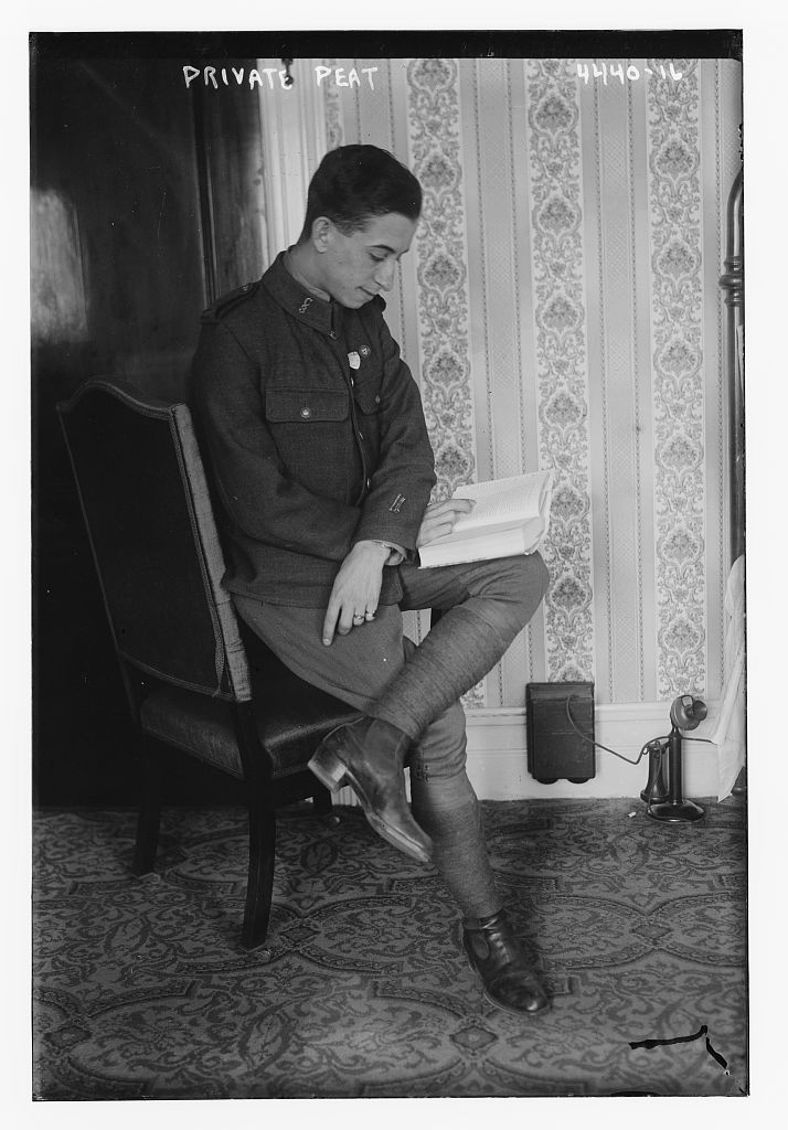 Bain News Service, publisher. Private Peat [between ca. 1915 and ca. 1920] 1 negative : glass ; 5 x 7 in. or smaller. Notes: Title from unverified data provided by the Bain News Service on the negatives or caption cards. Forms part of: George Grantham Bain Collection (Library of Congress). Format: Glass negatives. Repository: Library of Congress, Prints and Photographs Division, Washington, D.C. 20540 USA, General information about the Bain Collection is available at Higher resolution image is available (Persistent URL): Call Number: LC-B2- 4440-16